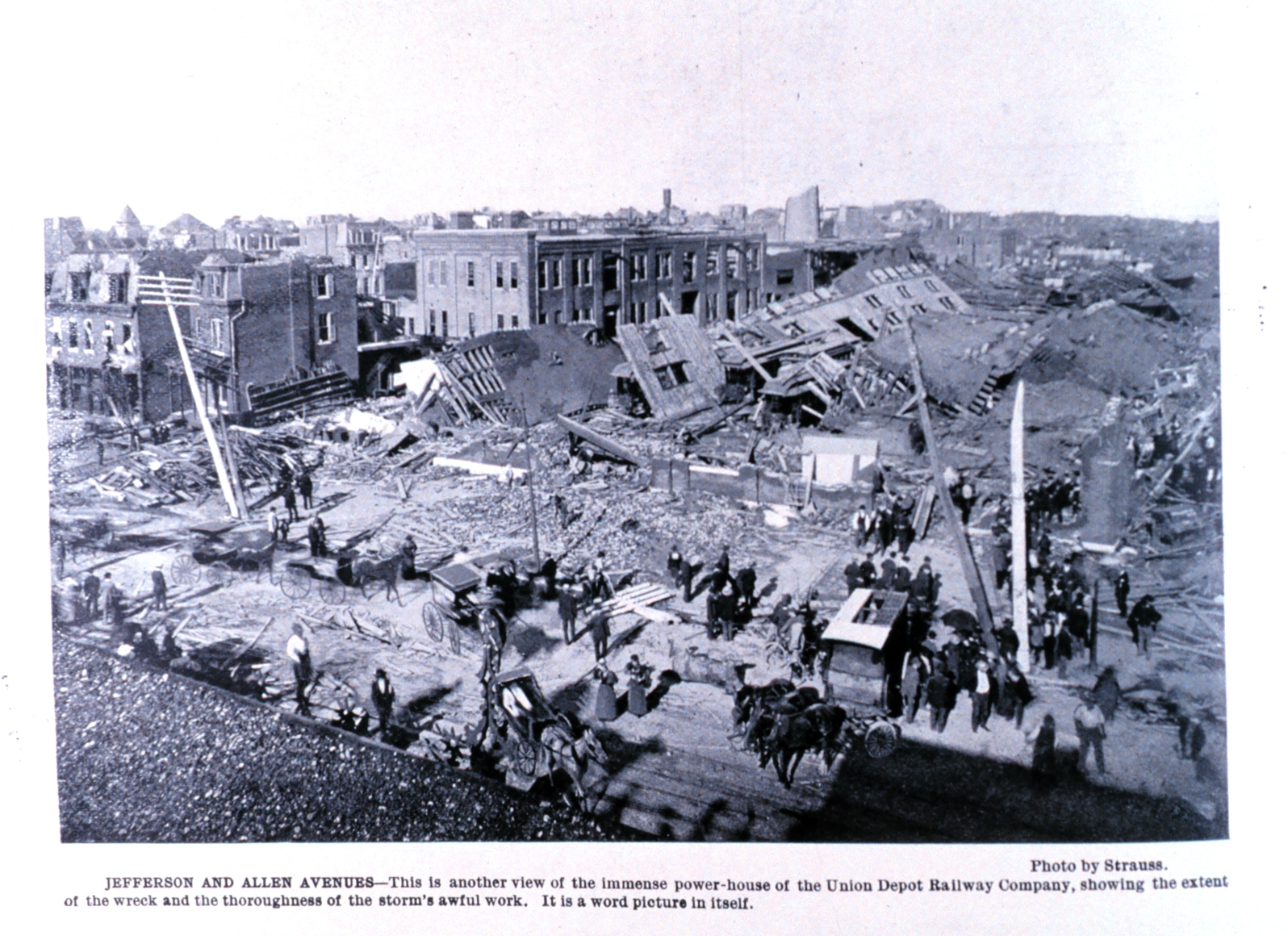 Tornado damage at Jefferson and Allen Ave in the City of St. Louis from 27 May 1896.